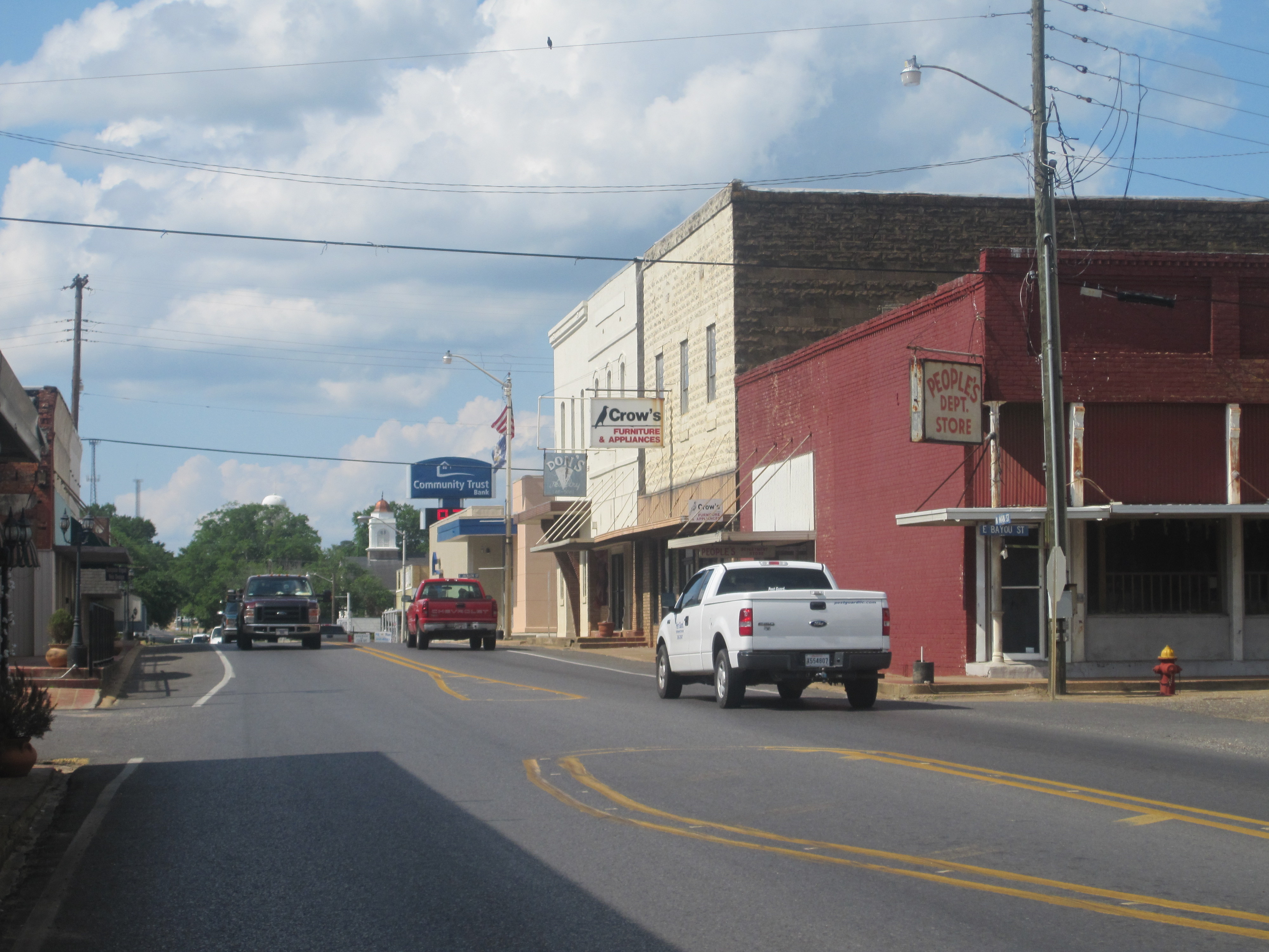 I took photo with Canon camera.